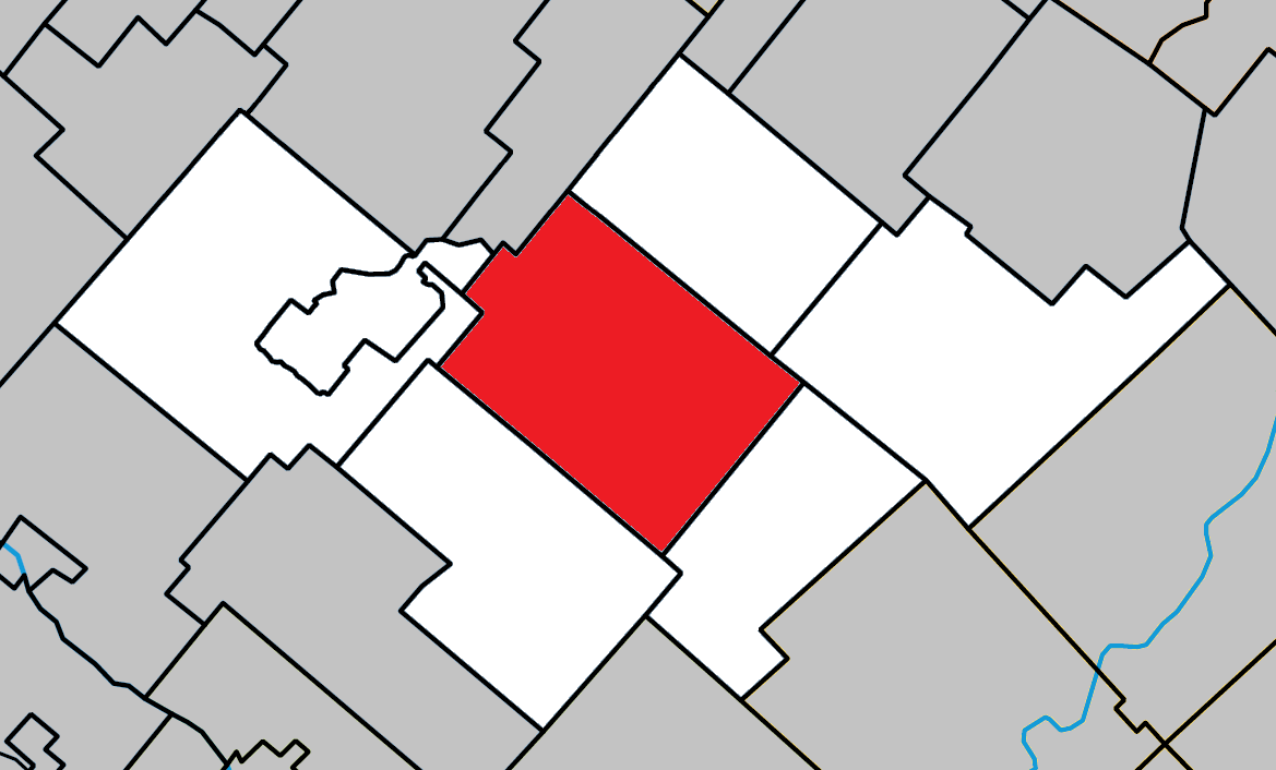 Location of Wotton, Quebec within Les Sources Regional County Municipality.